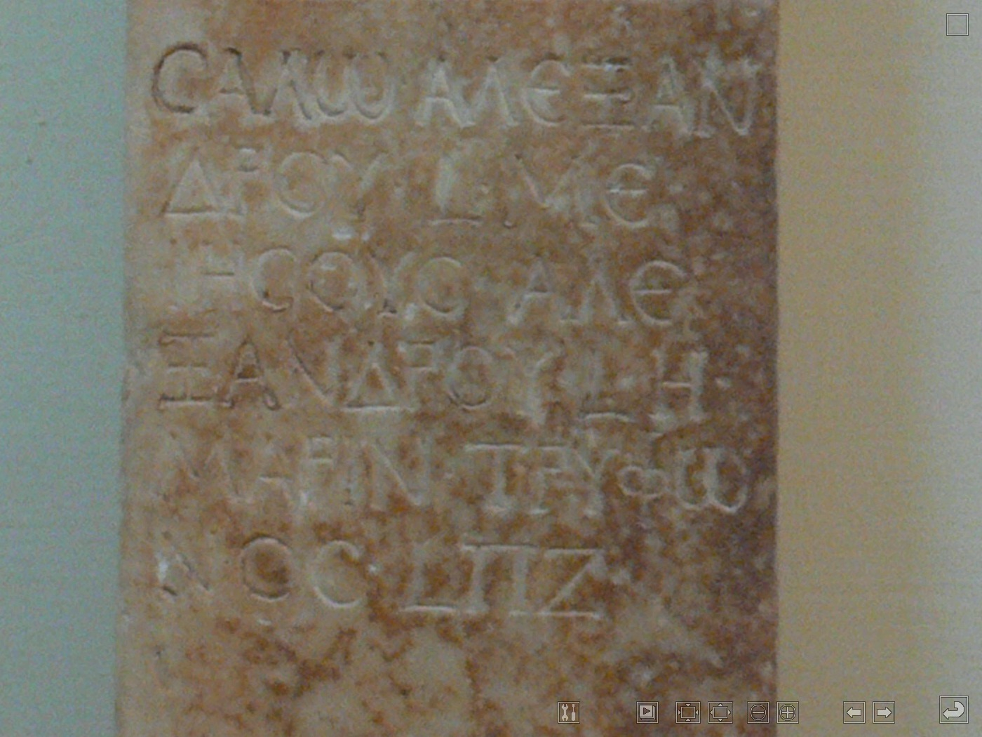 Greek inscription on ancient Libyen funeral stele of a Jewish family